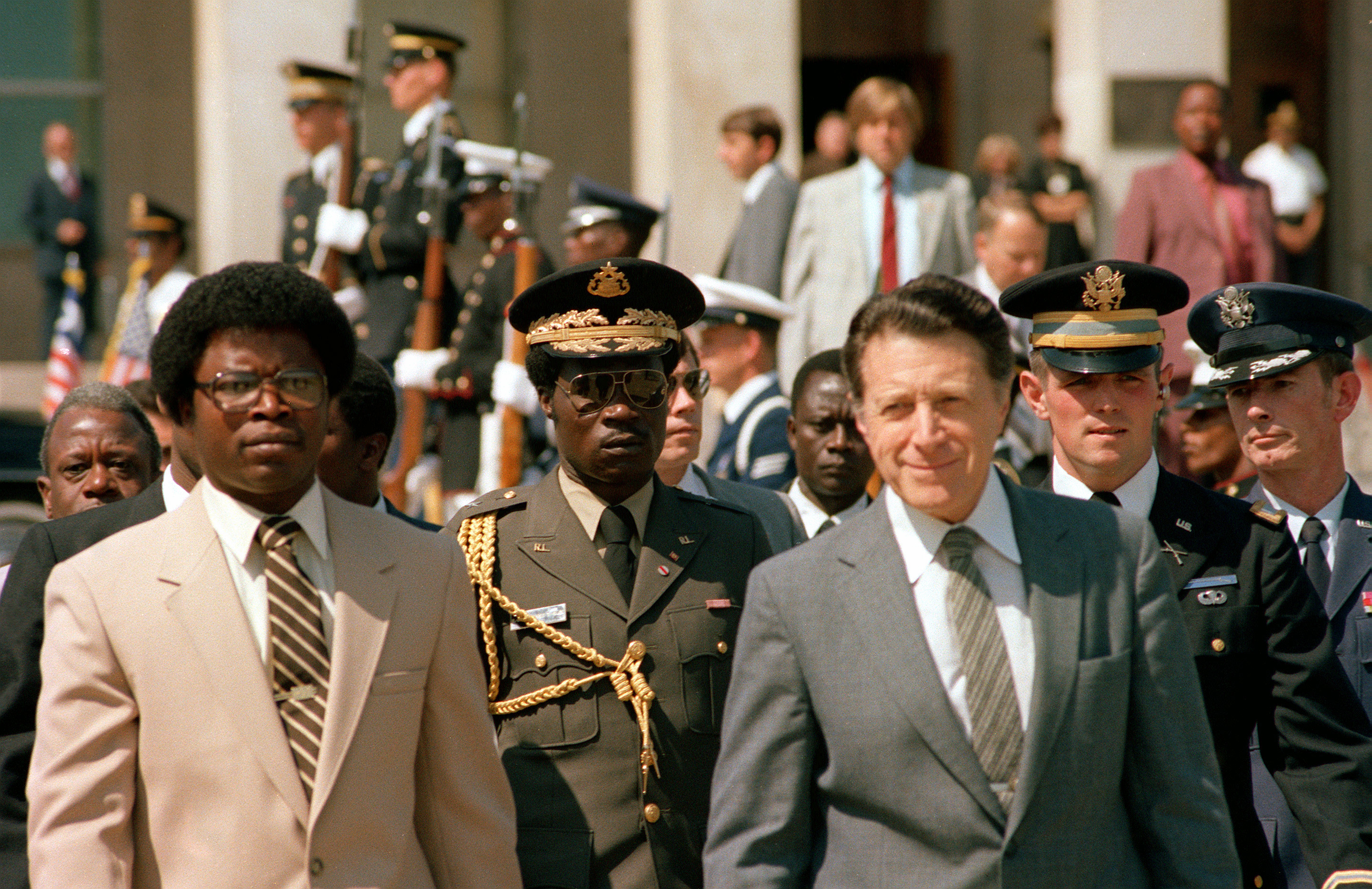 Secretary of Defense Caspar W. Weinberger hosts Armed Forces Full Honors Arrival Ceremony for His Excellency, Commander in Chief Samuel Kanyon Doe (L, tan suit), Head of State of the Republic of LIBERIA outside the Pentagon's River entrance. Location: WASHINGTON, DISTRICT OF COLUMBIA (DC) UNITED STATES OF AMERICA (USA)